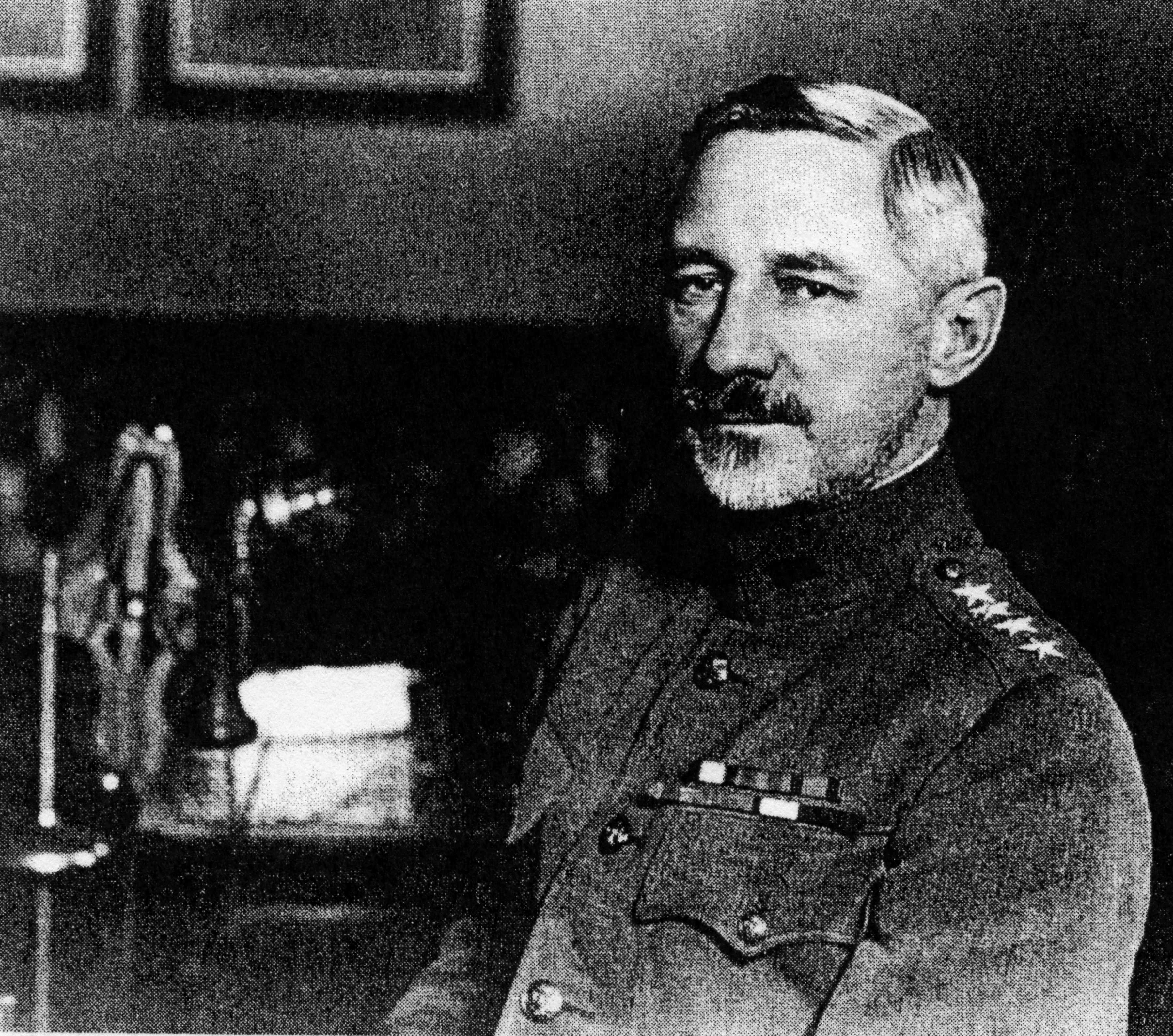 General Peyton C. March, sometime after being recalled from France in early 1918 to serve as the U.S. Army chief of staff. He was appointed to this position because of his recognized abilities and ruthlessness, necessary in a time of national emergency. Note old-style telephone on expandable arm in left background.